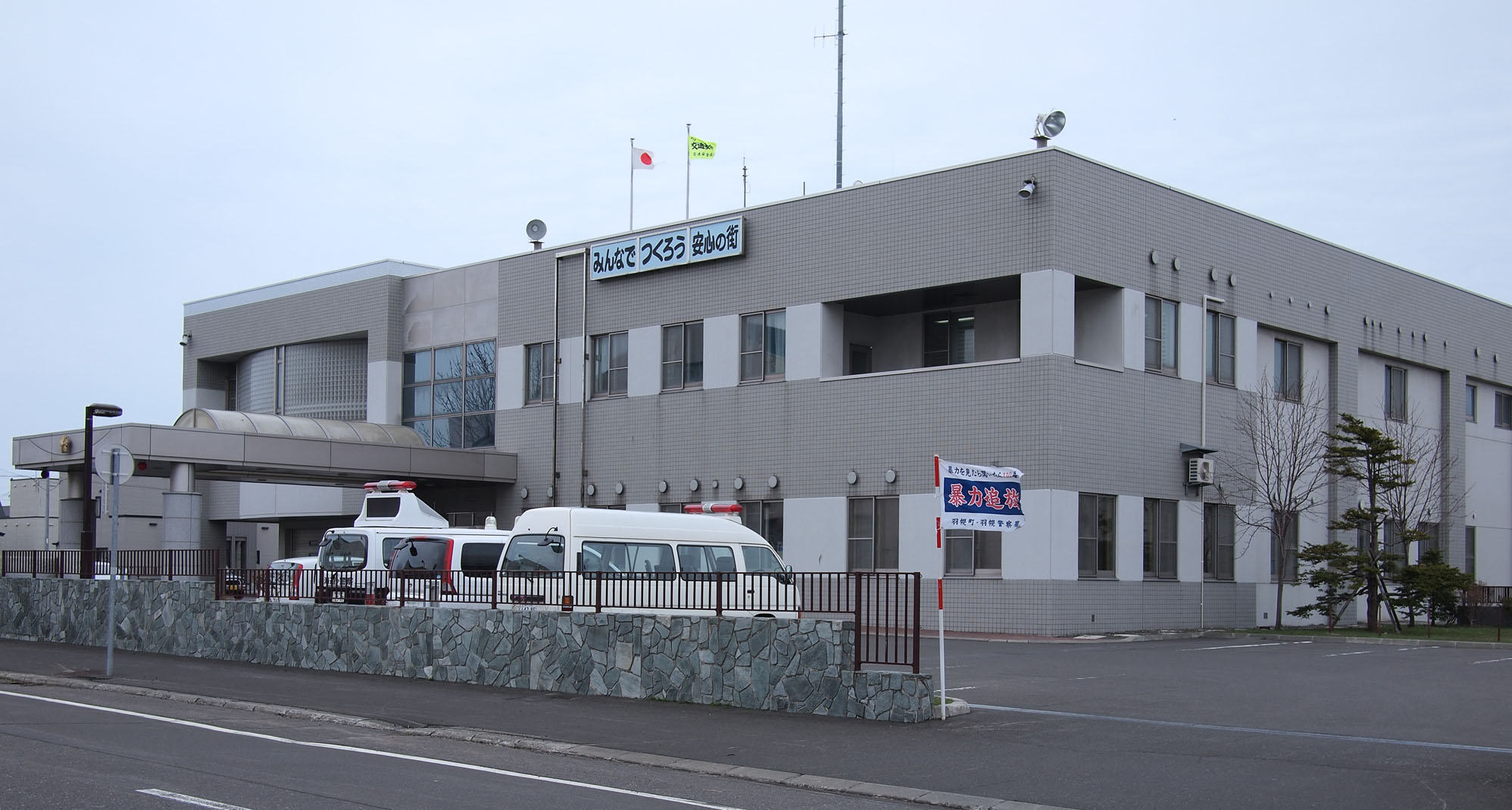 Haboro police station, Haboro, Hokkaido, Japan